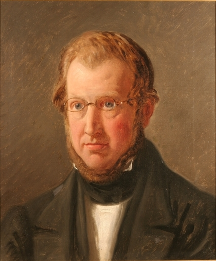 Portrait of the politician Andreas Frederik Krieger